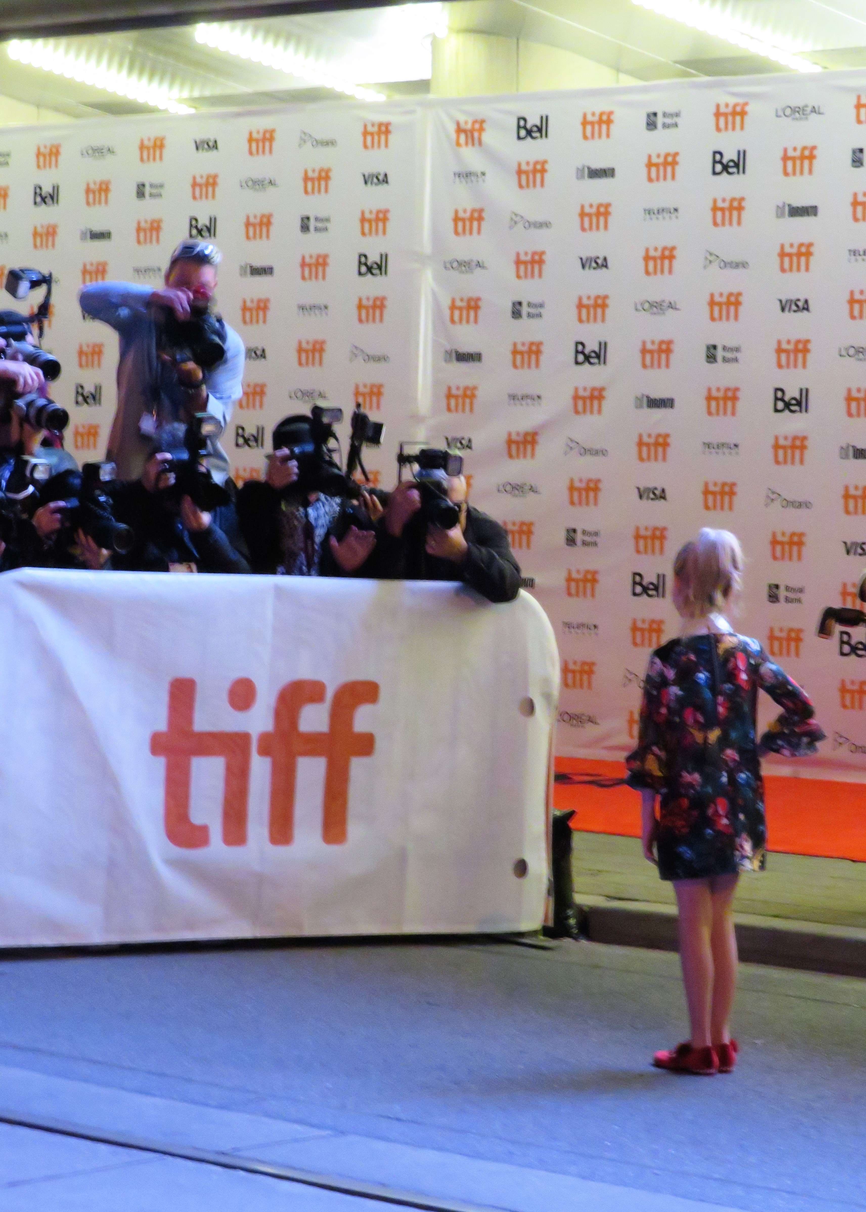 McKenna Grace at the premiere of I Tonya, 2017 Toronto Film Festival